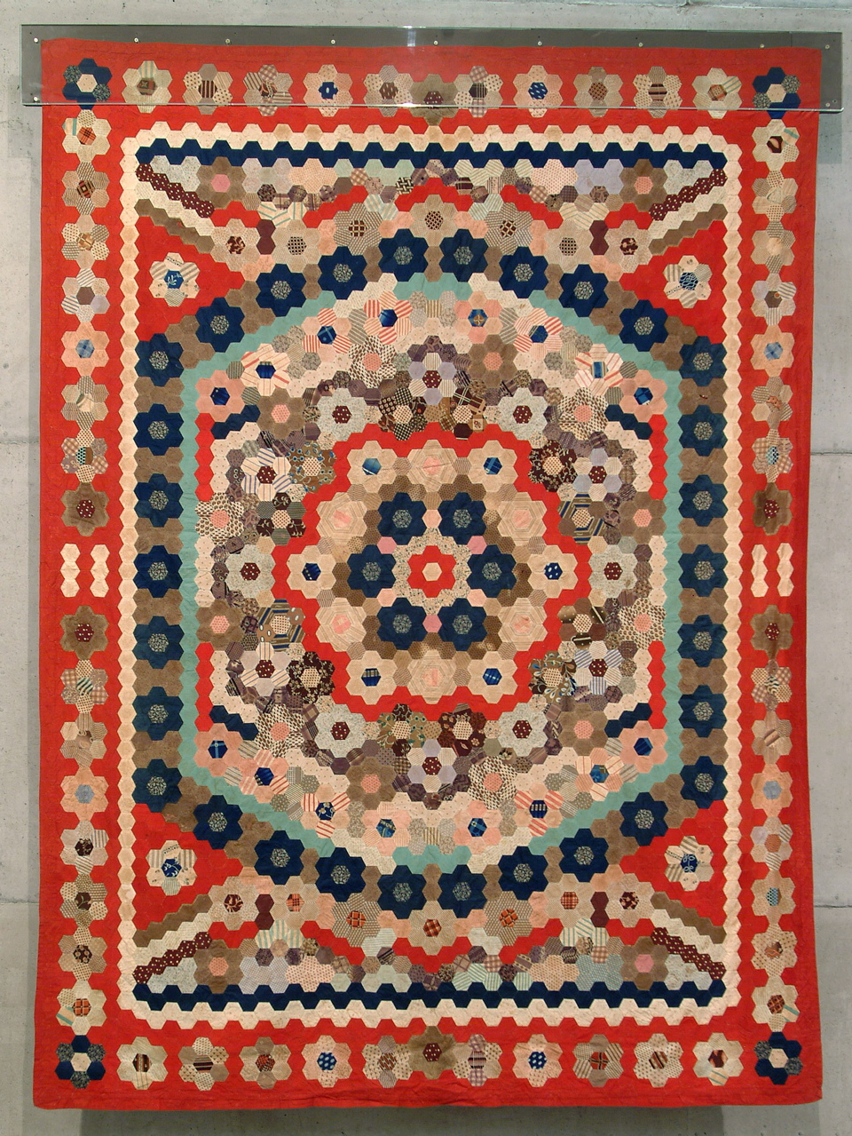 Patchwork cotton bed cover, hexagonal patchwork (not quilted) with border and multi-coloured pattern lining. Grandmothers Garden quilt maker unknown, England, circa 1850 cotton top, cotton lining hand pieced; hand stitched hexagons made with paper template length 2650 mm x width 2000 mm This quilt was probably brought to New Zealand by the donor’s family and was presented to the Museum with a bag of patchwork pieces, together with other items of family clothing and toys. It uses a traditional English template paper pattern technique. The hexagonal grandmother’s garden pattern, popular in England from the late 18th century, had a renaissance in the 1920s-30s when published by many pattern companies.